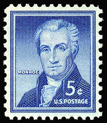 U.S. Postage Stamp: James Monroe, Issue of 1954, 5c